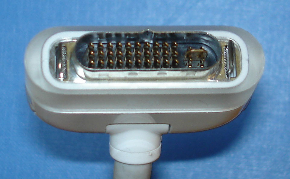 Photo of Apple Display Connector